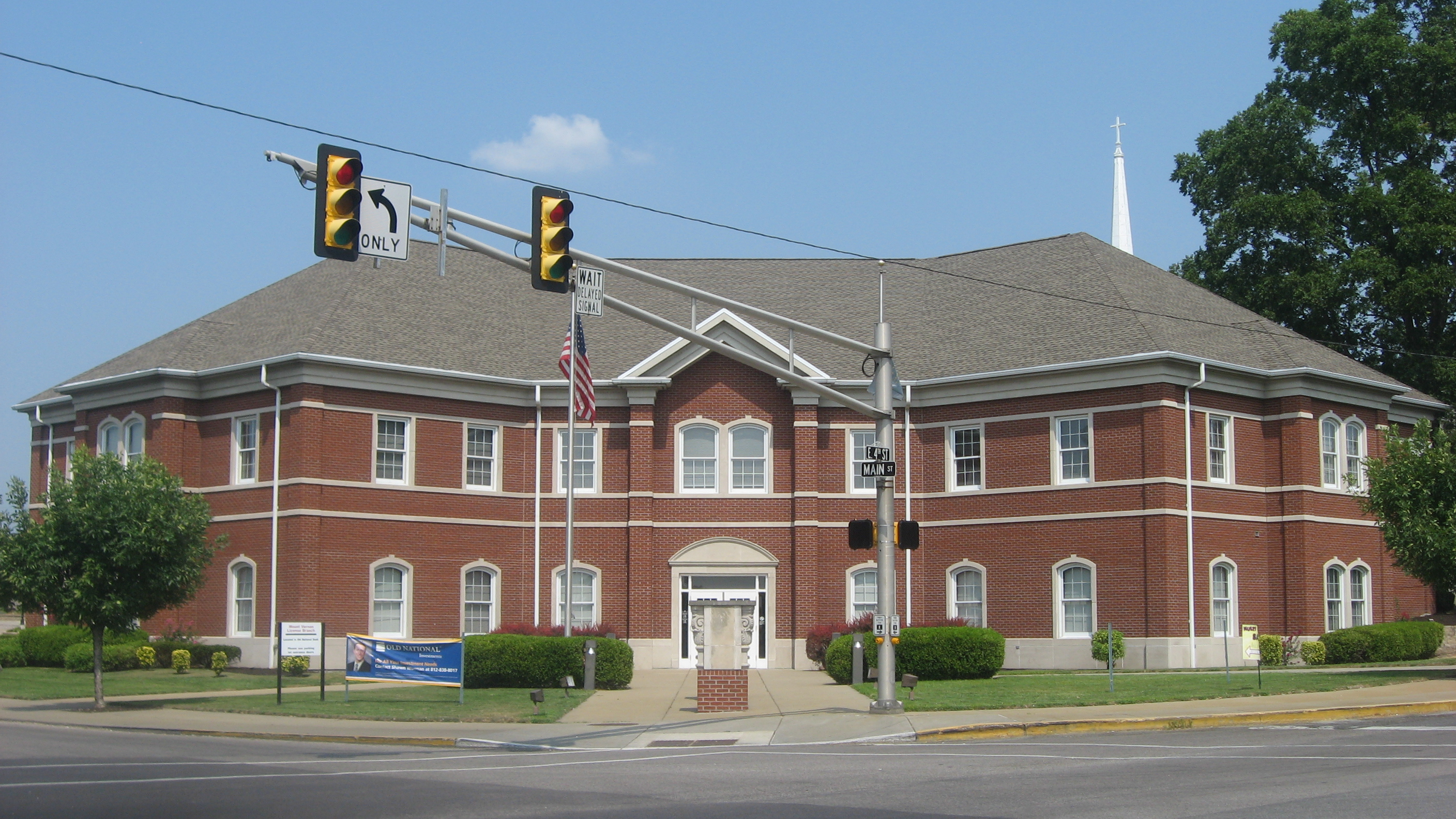 Front of the Old National Bank, located at 402 Main Street in Mount Vernon, Indiana, United States. Built in 1990, it sits on the site of the I.O.O.F. and Barker Buildings, which were listed on the National Register of Historic Places in 1985 and were only removed in 2011.